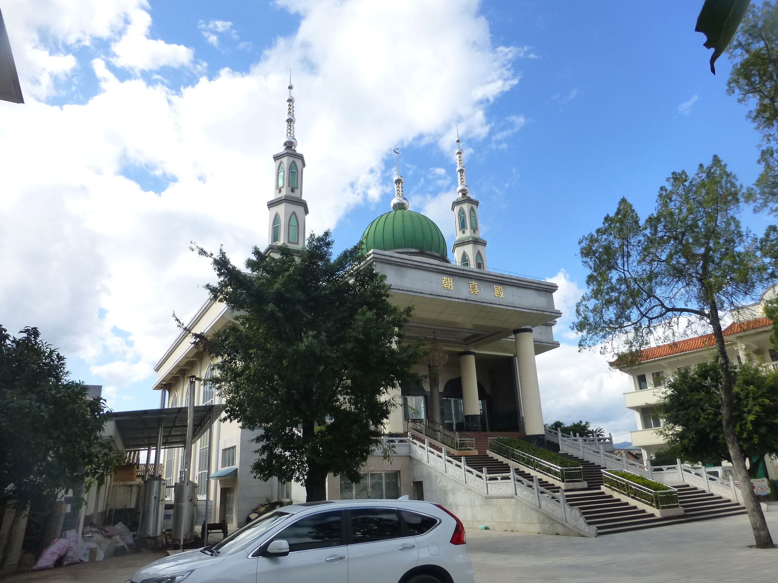 Guanyi Village, south of Qujiang Town, Jianshui County, Yunnan